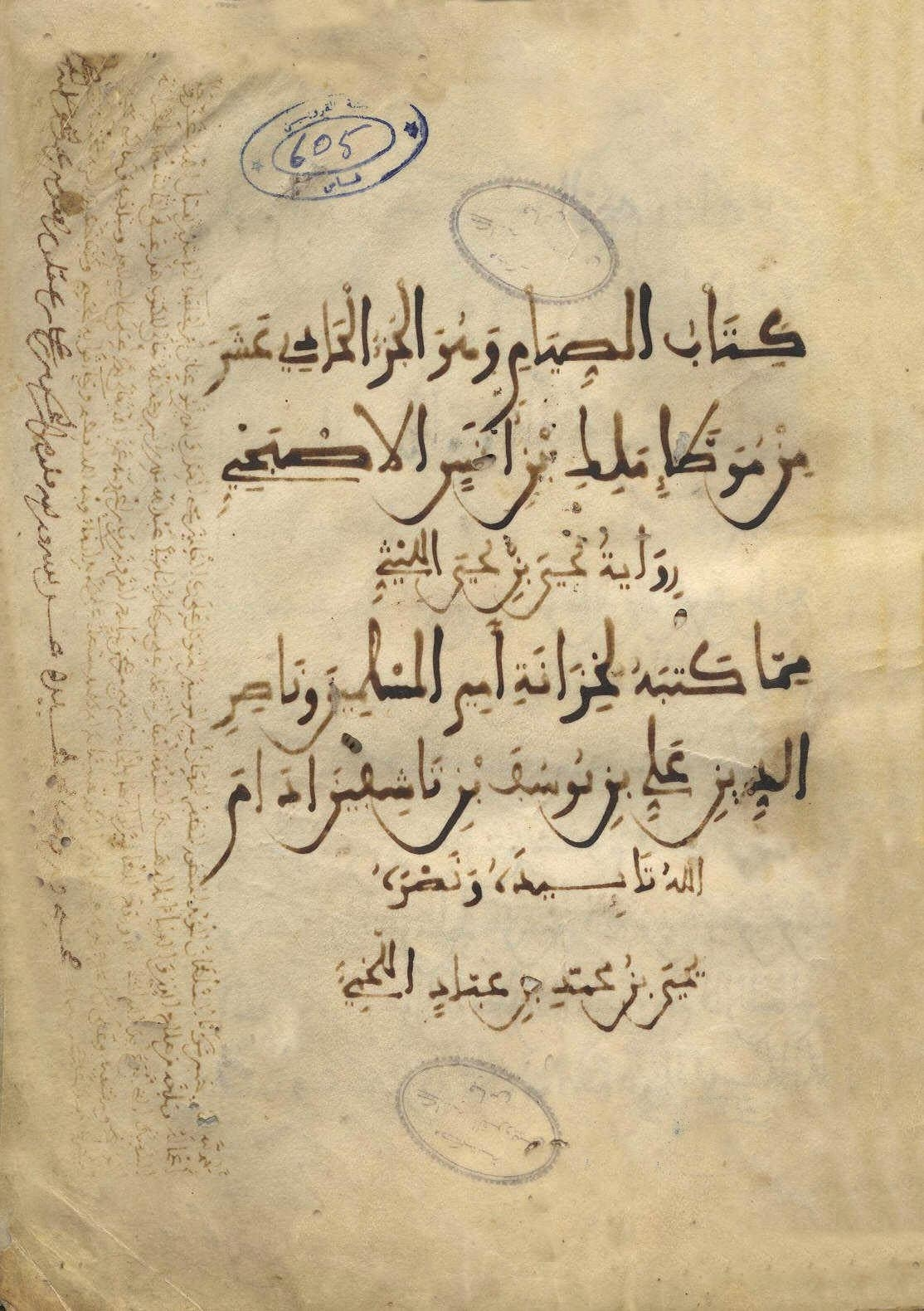 Title page of the "Book of Ṣawm" from the Al-Muwatta on pergament. Manufactured for the private library of Ali Ibn Yusuf Ibn Tashfin in Marrakech in 1107